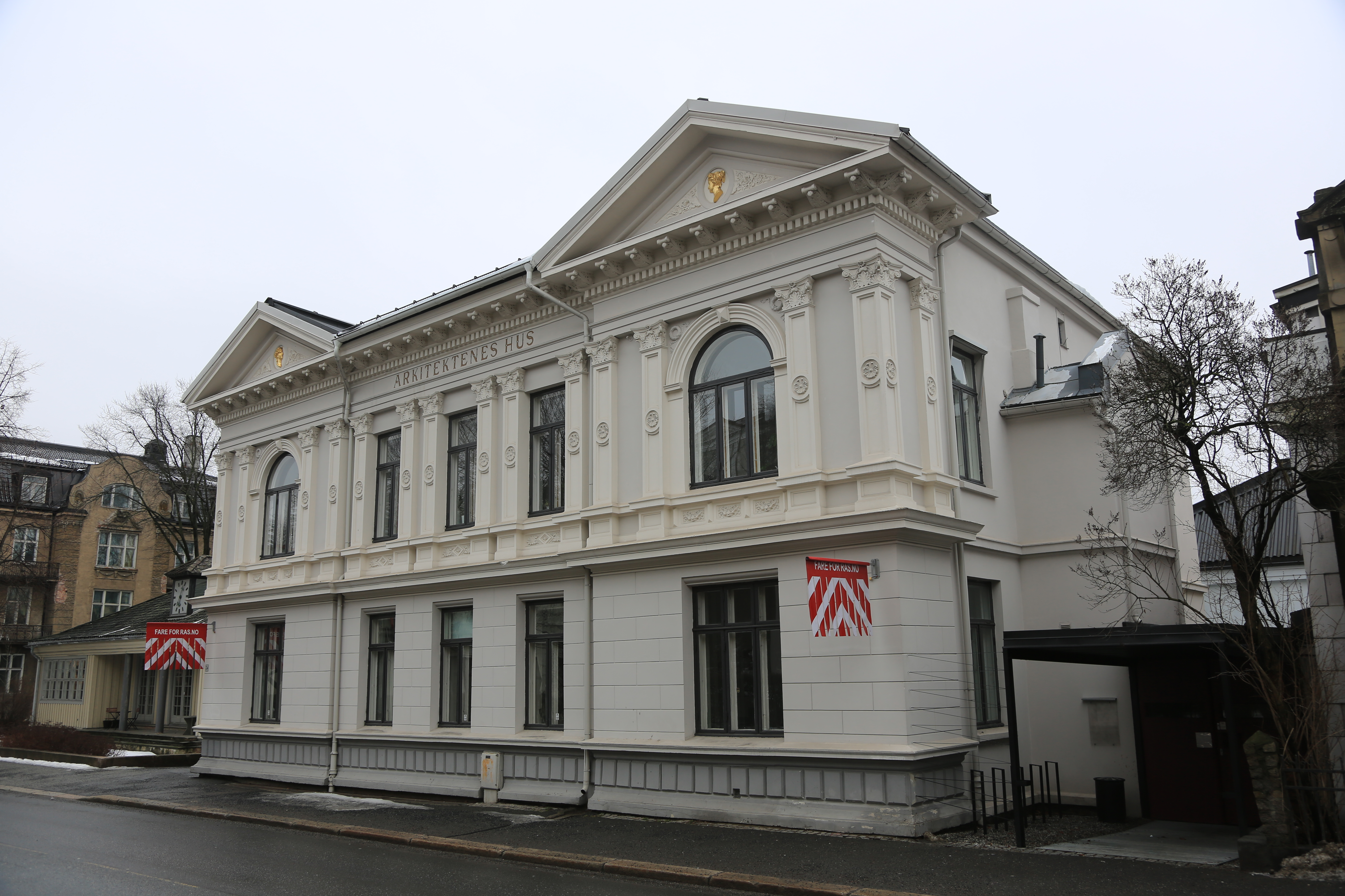 Arkitektenes hus in Oslo. Main building by M.J. Larsen, from 1877